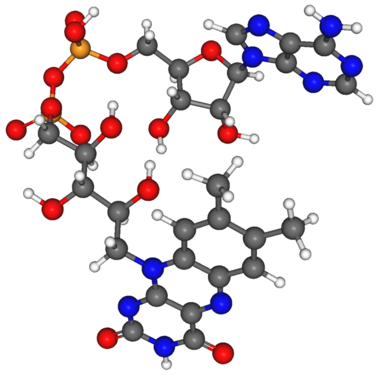 Ball & Stick model of FAD